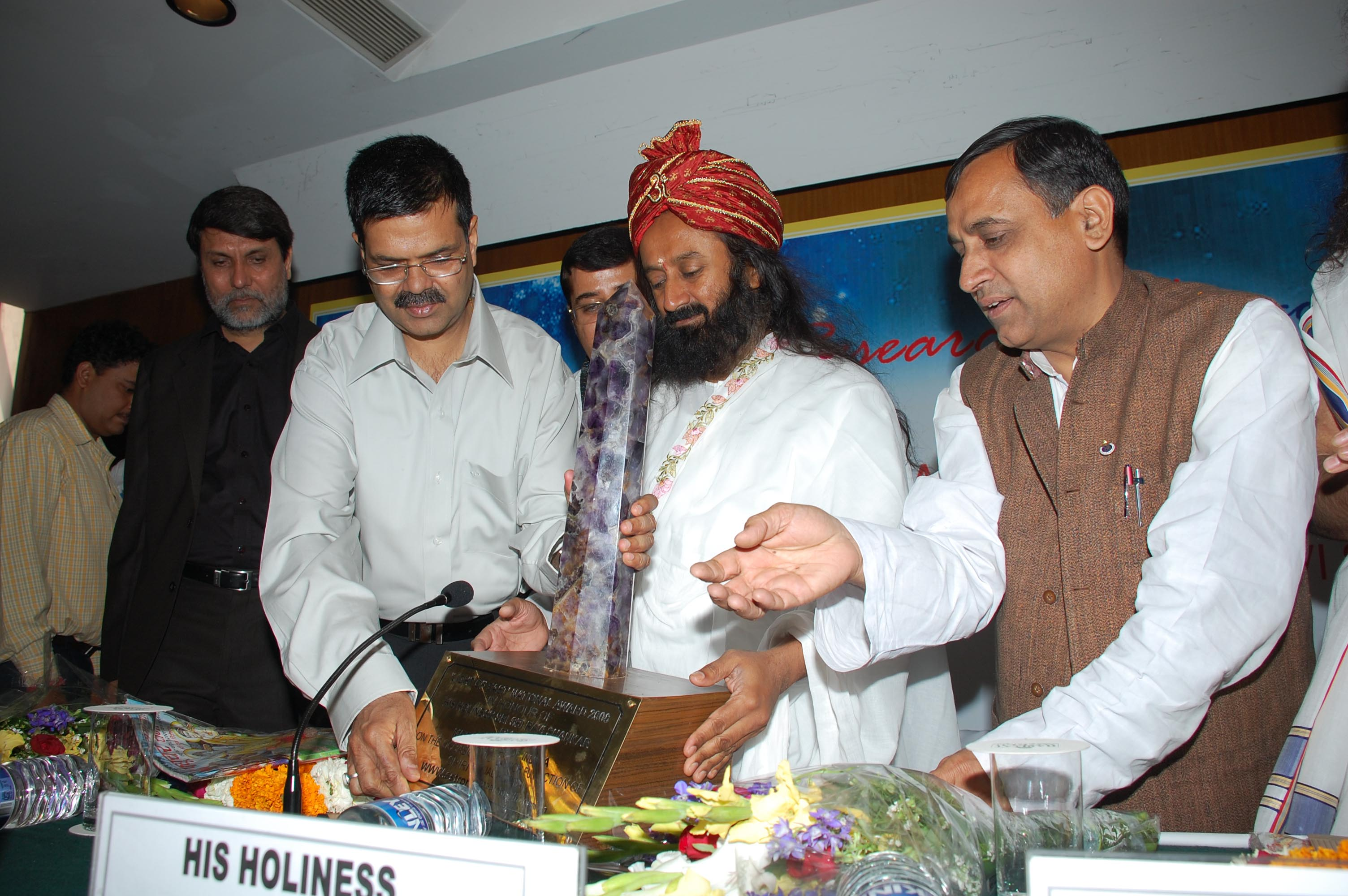 receiving master of wisdom. In the center of the image Sri Sri Ravi Shankar